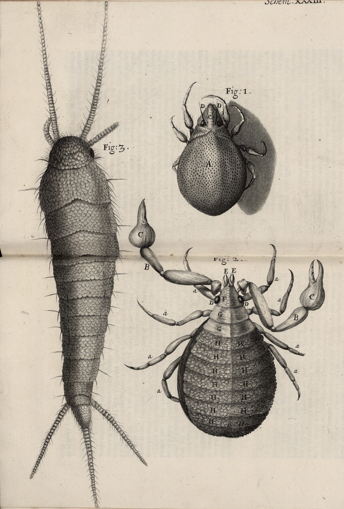 Schem. XXXIII - Fig. 1 Of the wandring Mite. Fig. 2 Of the Crab-like Insect. Fig. 3 Of the small Silver-colour'd Book-worm.